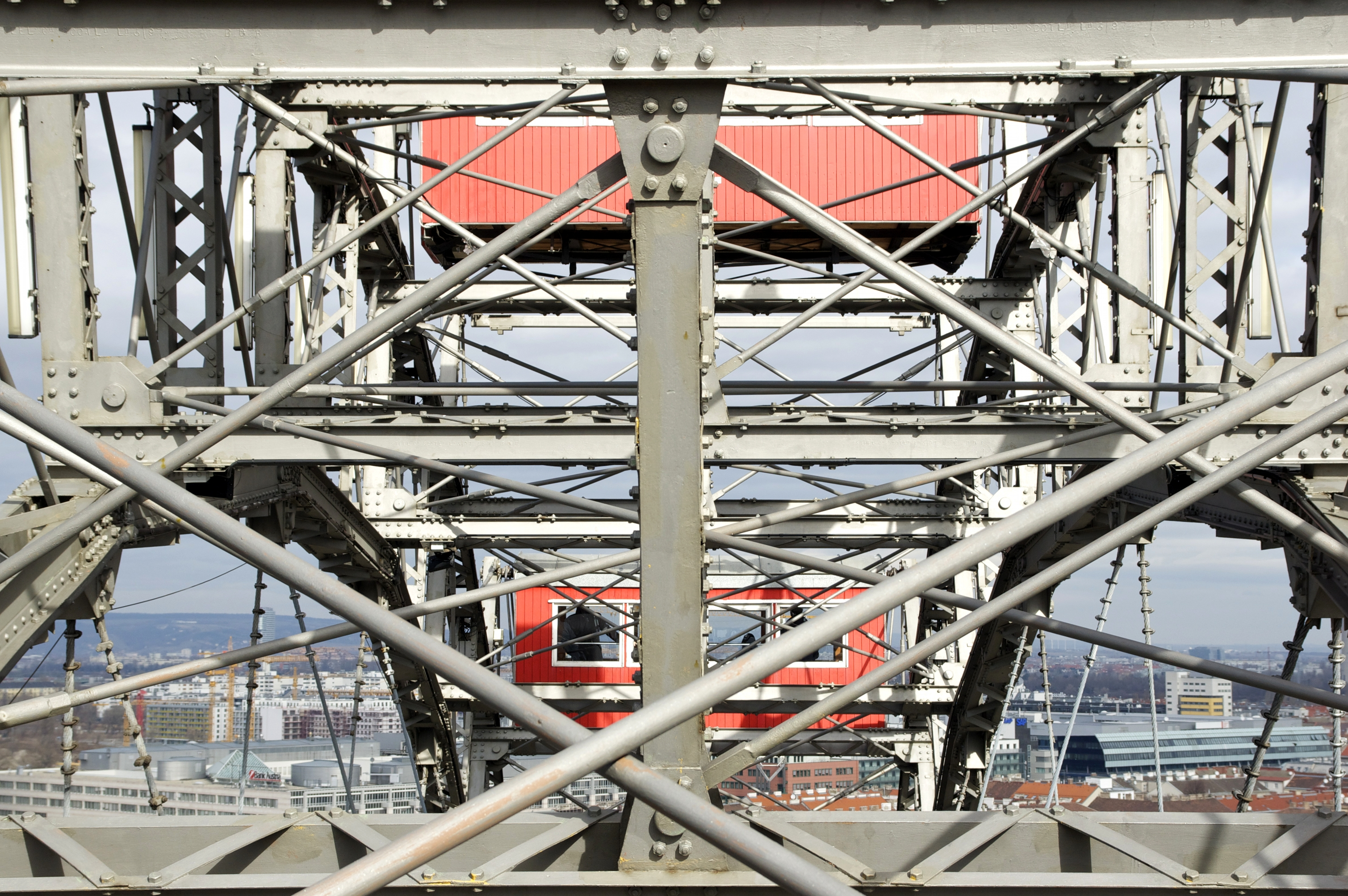 Inside the Ferris wheel ("Wiener Riesenrad") in Prater, Vienna, Austria.